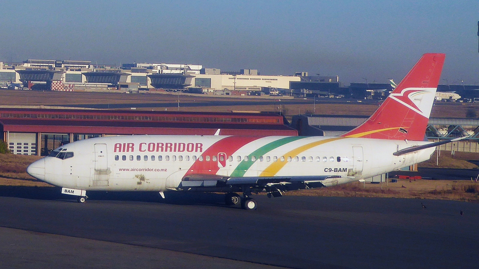 Air Corridor Boeing 737-200 Adv C9-BAM in the fire training area at Johannesburg O. R. Tambo International Airport.